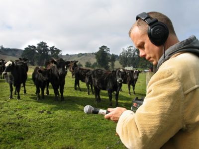 Photograph of M. C. Schmidt recording cows with a microphone